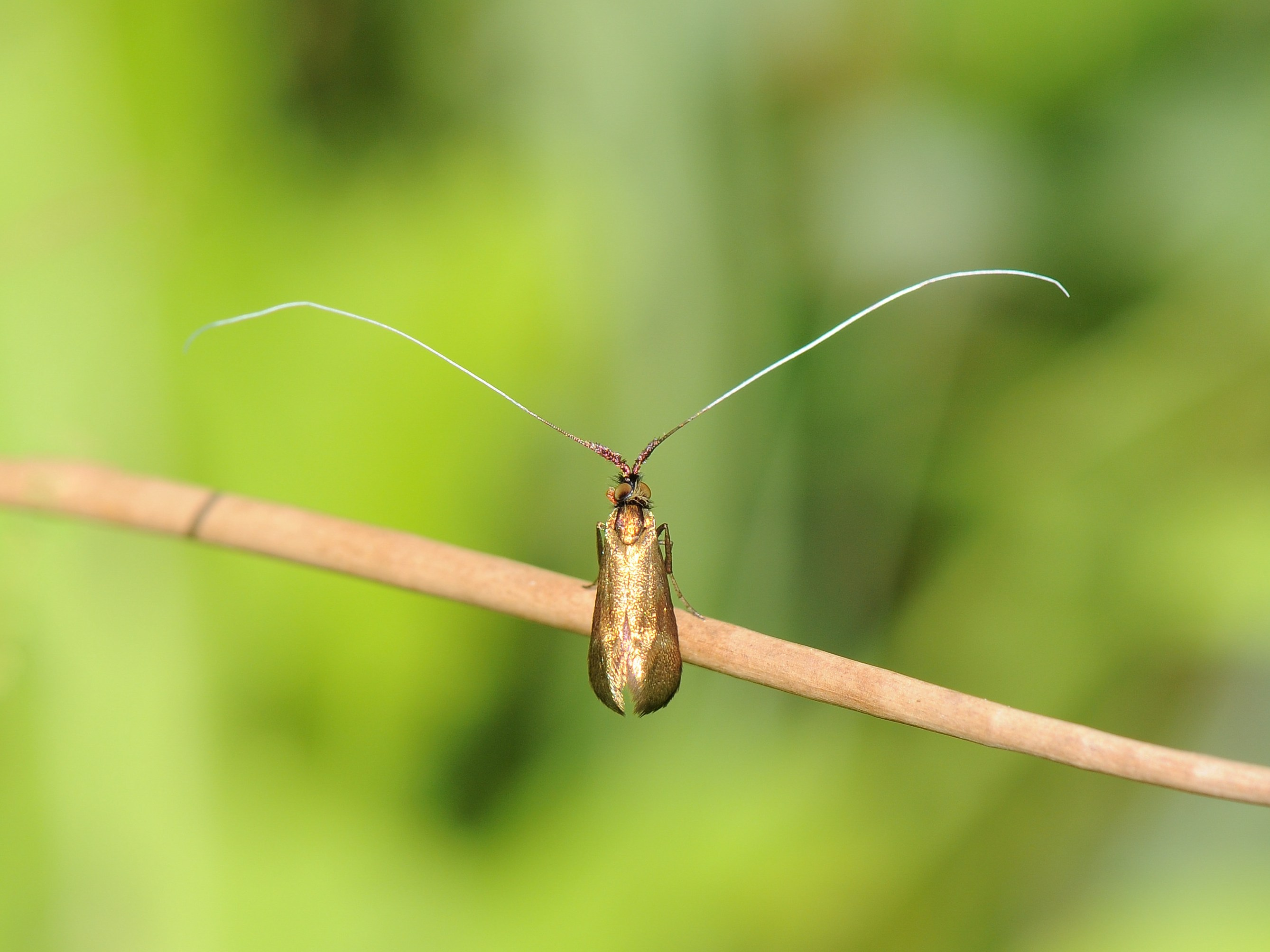 Nemophora metallica is a moth of the family Adelidae. It is found in Europe. The wingspan is 15-20 mm. The moth flies from late June to August depending on the location.